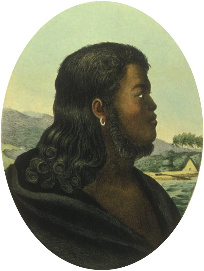 Taymotou, frère de la Reine Kaahumanu by Louis Choris, the artist aboard the Russian ship Rurick, which visited Hawai'i in 1816. Kalanimoku (c. 1768–1827) was a military and civil leader of the Kingdom of Hawaii. He served as battle commander during the conquest, and then as a role similar to Prime Minister. He took the name "Billy Pitt" after the Prime Minister of Great Britan at the time.